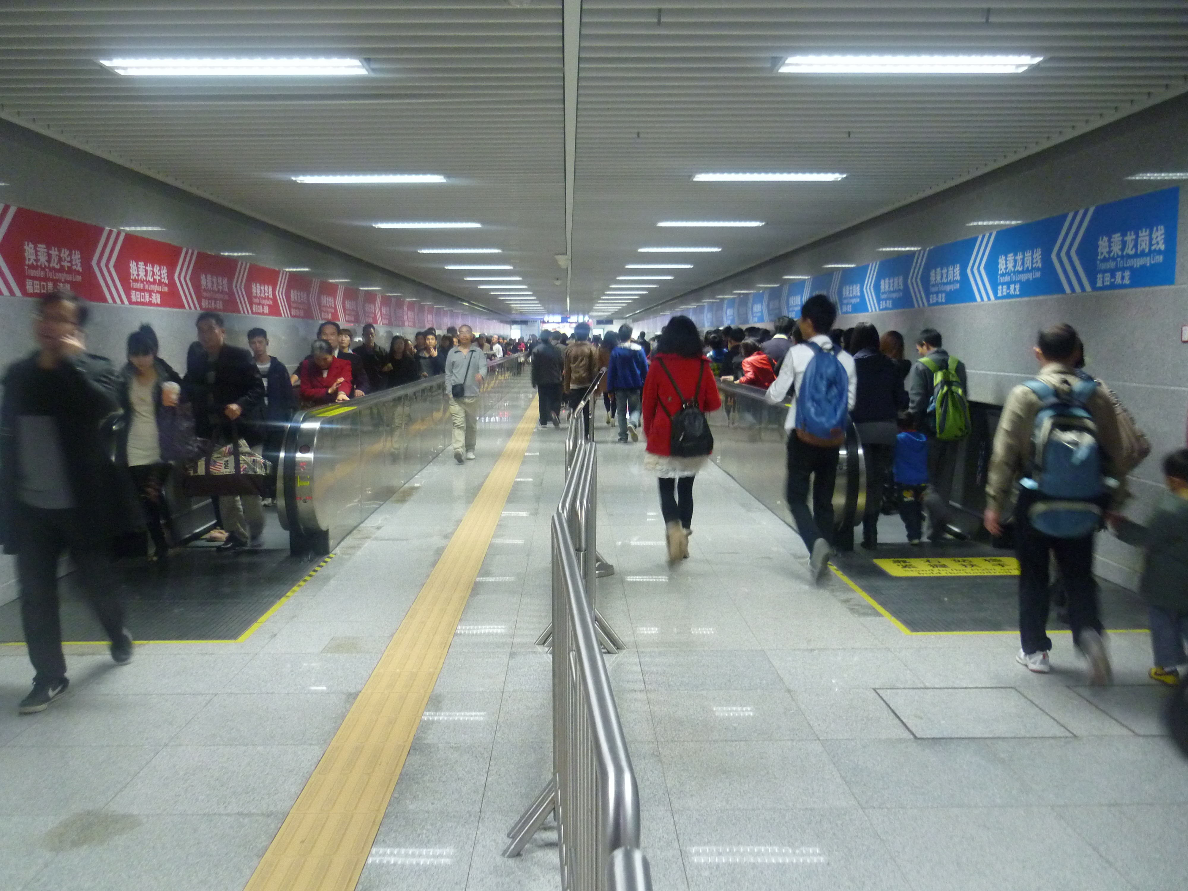 Interchange Passage of Children's Palace Station, Shenzhen.